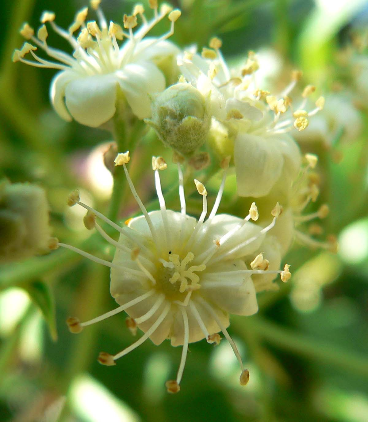 Photo of Vauquelinia californica (Arizona rosewood) at the Springs Preserve garden in Las Vegas, Nevada